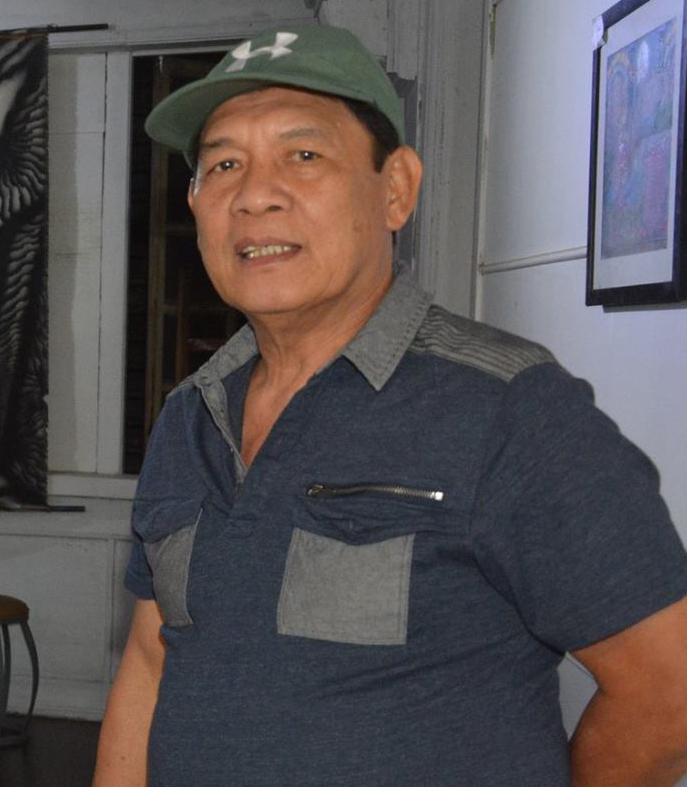 Portrait of the Master of Watercolour in the Philippines